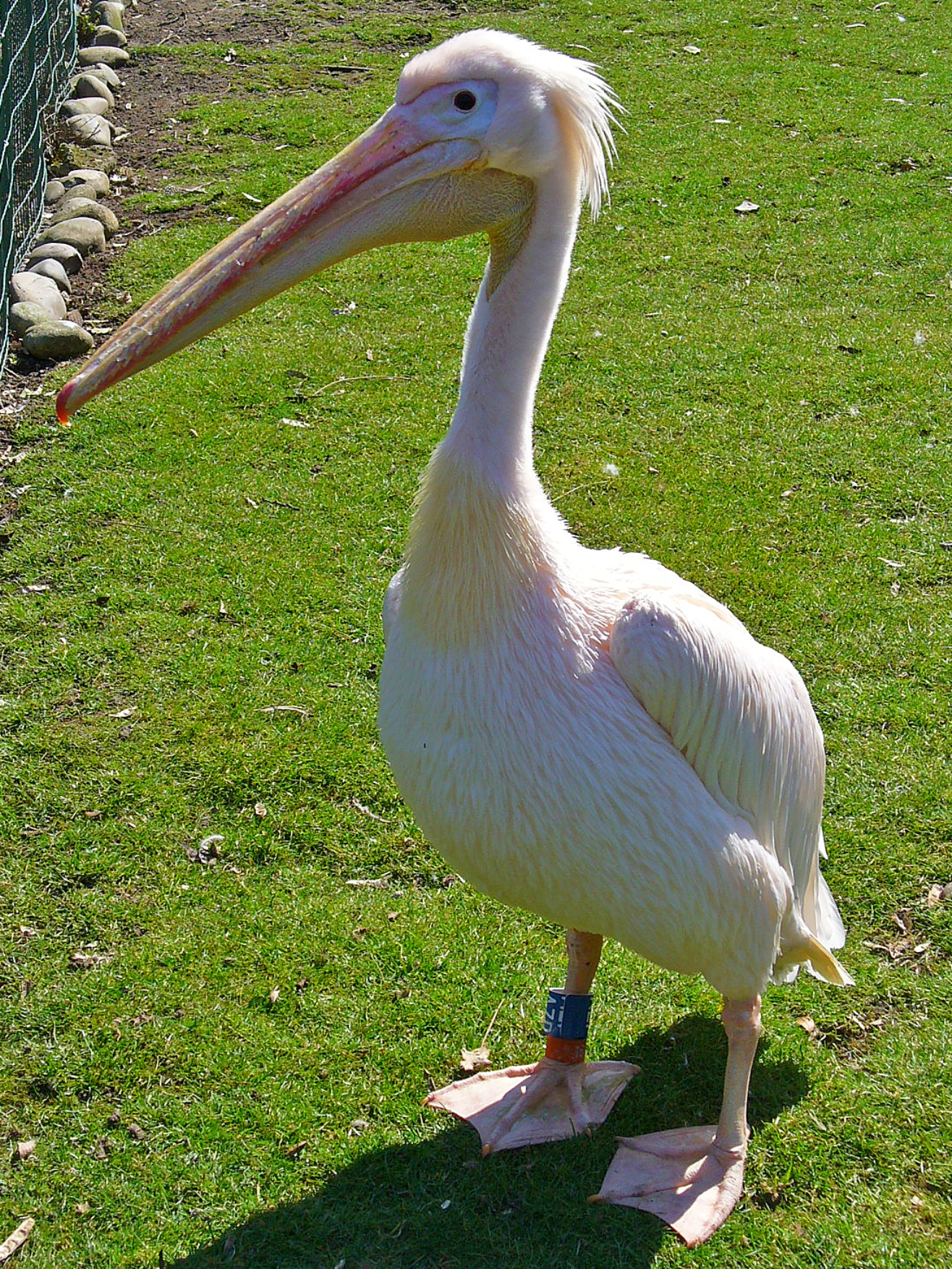 Pelecanus onocrotalus, Pelecanidae, Great White Pelican, Eastern White Pelican; Zoo Karlsruhe, Germany.